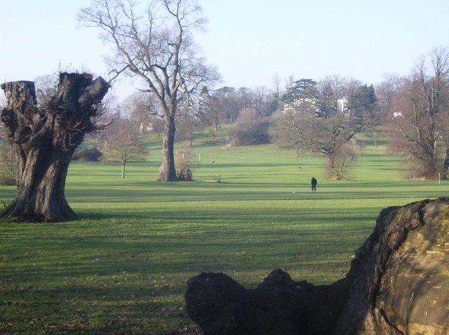 Old trees in Prospect Park The age of the park is suggested by the size of these old trees, obviously well established many years ago. On the top of the hill, The Mansion House.